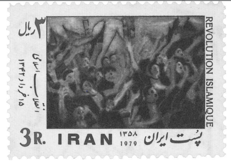 1963 demonstrations in Iran Stamp